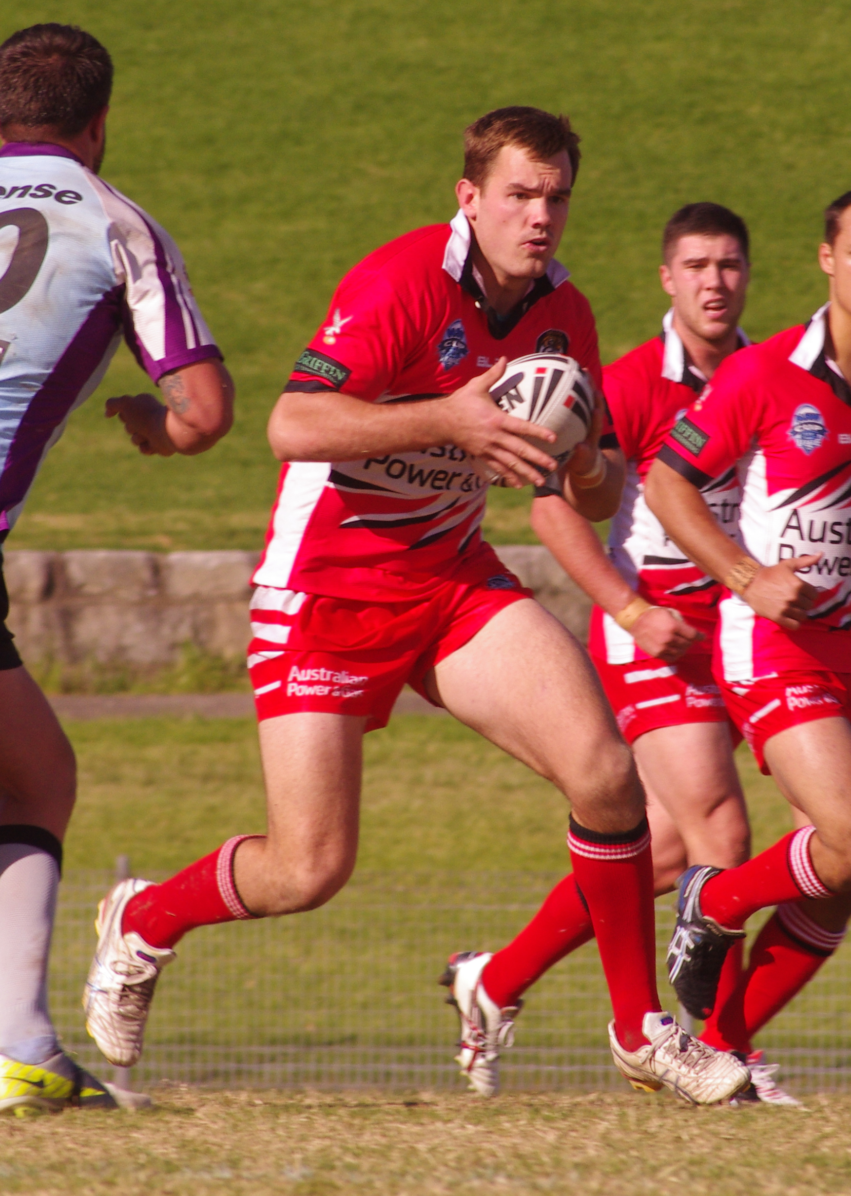 Shaun Spence